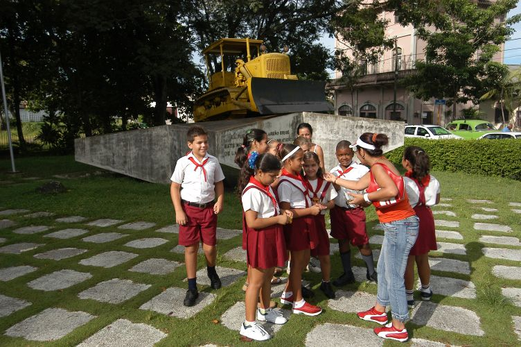 Students in front of a memorial to the Battle of Santa Clara.